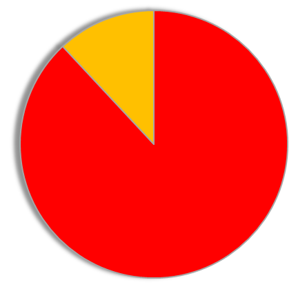 Expressed as a pie chart in the Oita gubernatorial election in 2011, the number of votes for each candidate. explanatory notes ■ - Katsusada Hirose ■ - Noboru Mieno